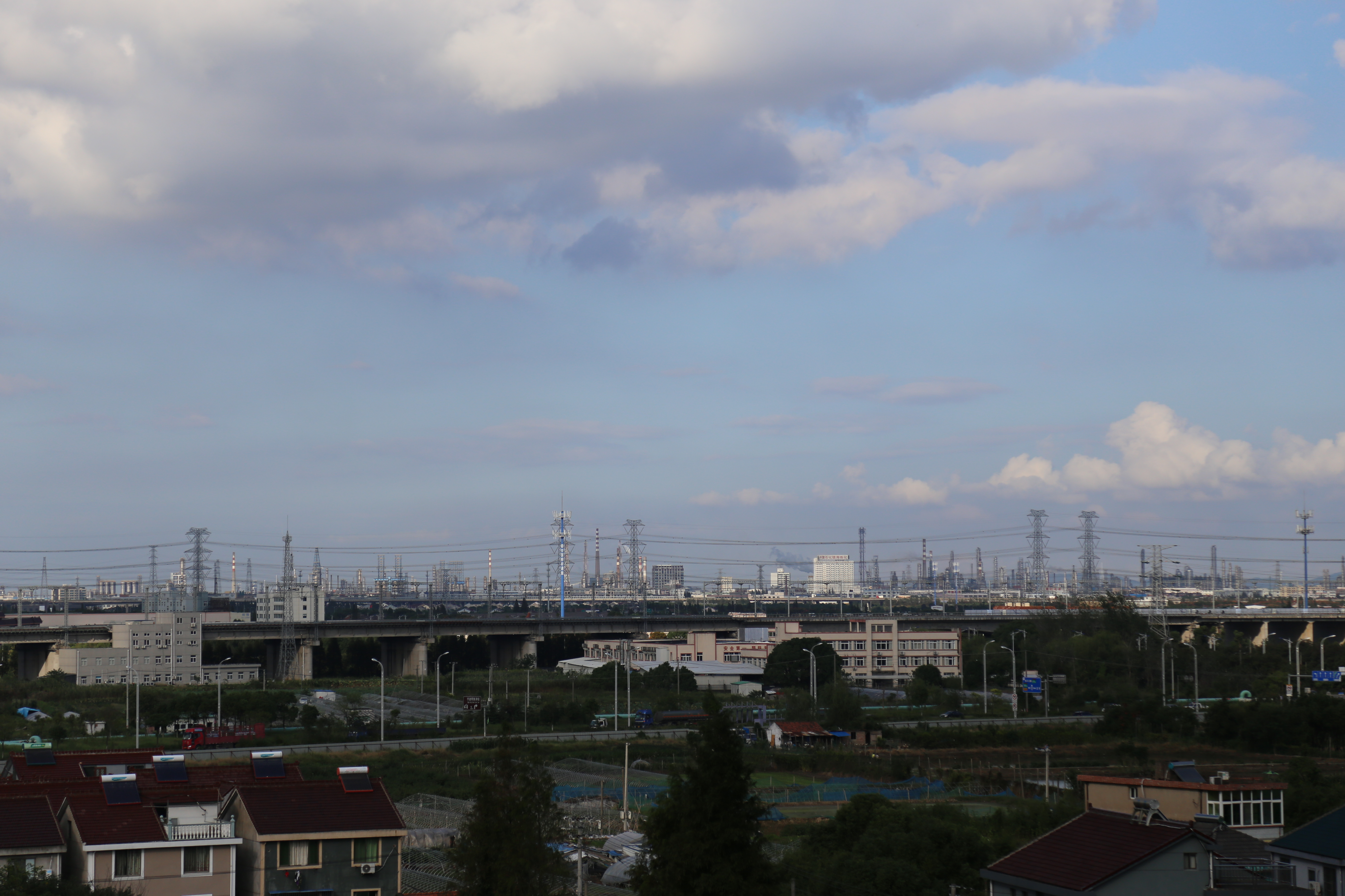 Panoramic view of Zhenhai Refinery and Chemical Company